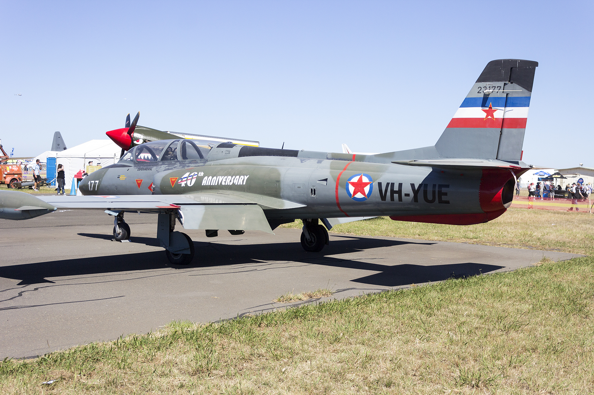 Soko G2 Galeb (VH-YUE) at the 2013 Avalon Airshow.